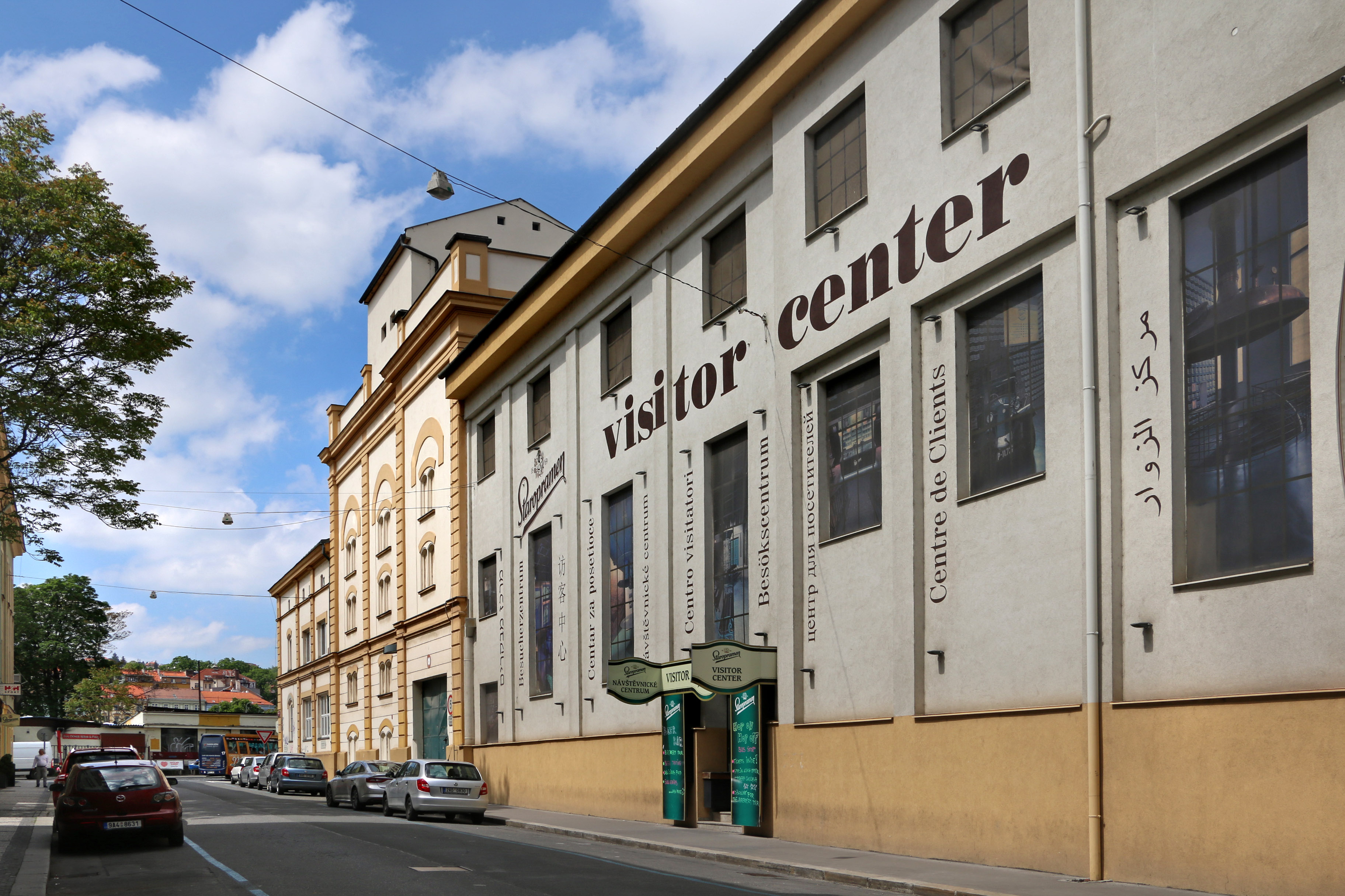 Visitor center of Staropramen brewery, Pivovarská street, Prague.